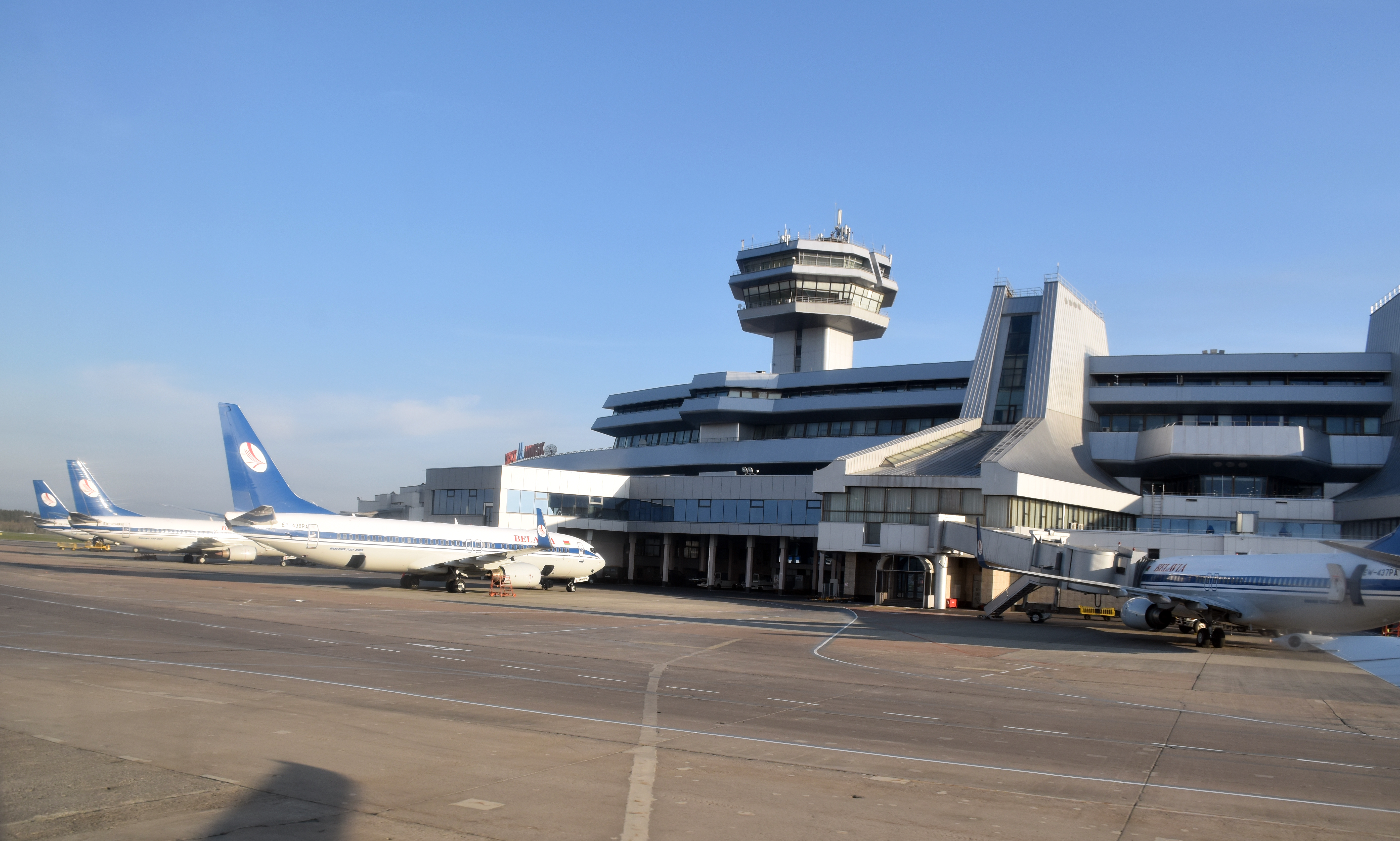 Belavia aircraft at Minsk National Airport. Belarus